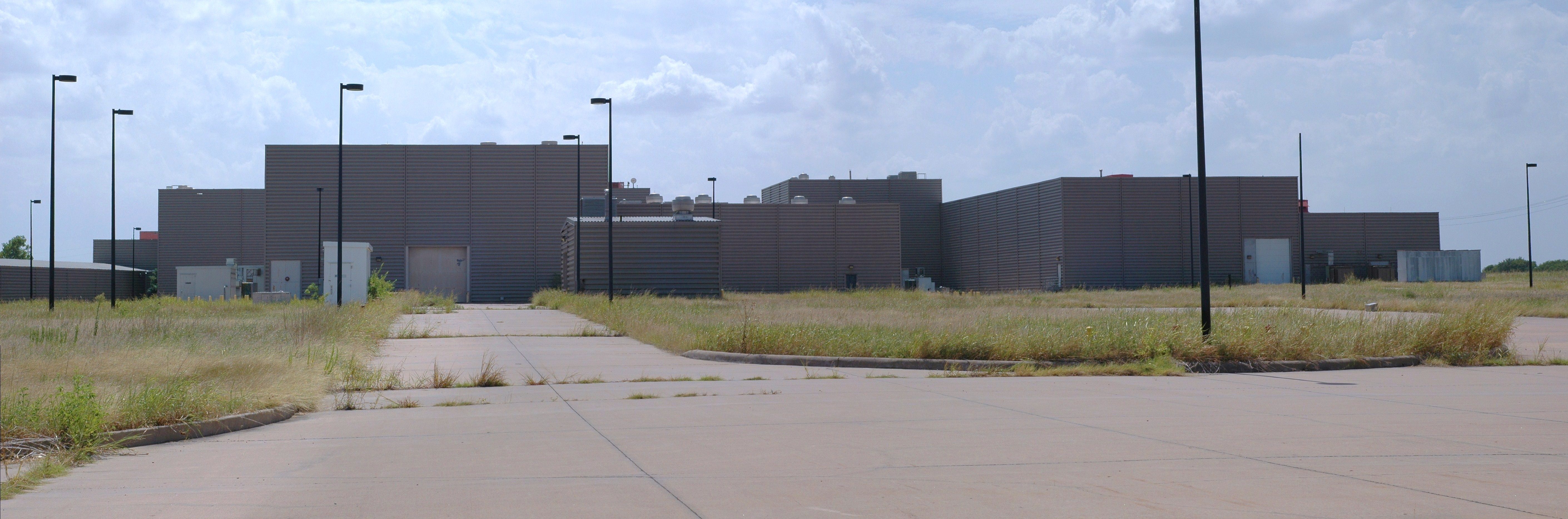 Panorama of the site at the Superconducting Super Collider in Waxahachie, TX, as of August 8, 2008.